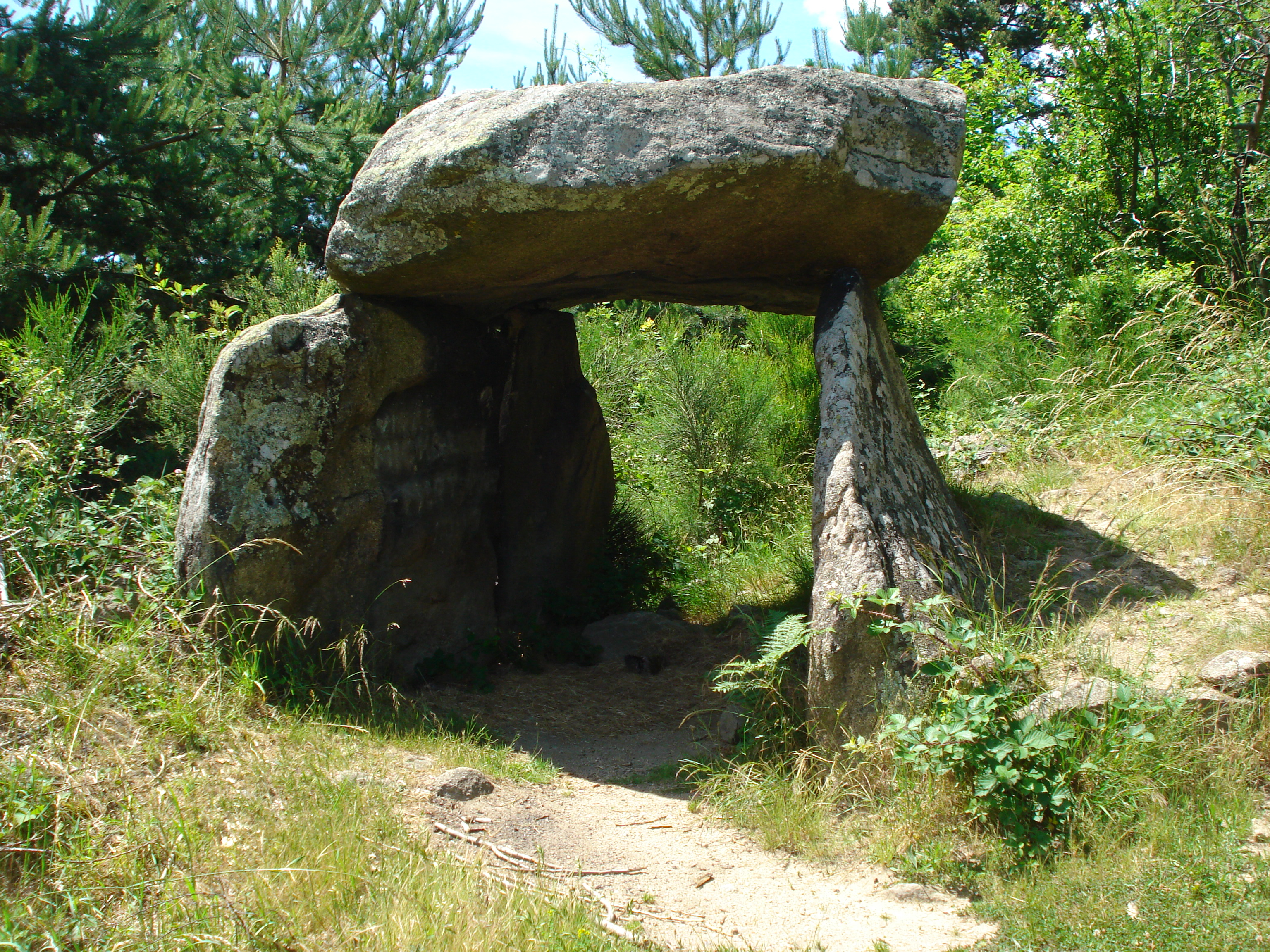 Luriecq (Loire, Fr), dolmen.